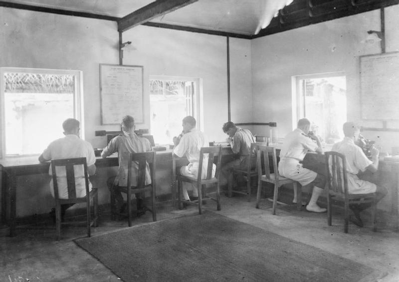 The Royal Naval School of Malaria and Hygiene Control, Nr Colombo, Ceylon, December 1944 Students at work in one of the laboratories in the Royal Naval School of Malaria and Hygiene Control based at RNAS Puttalam.